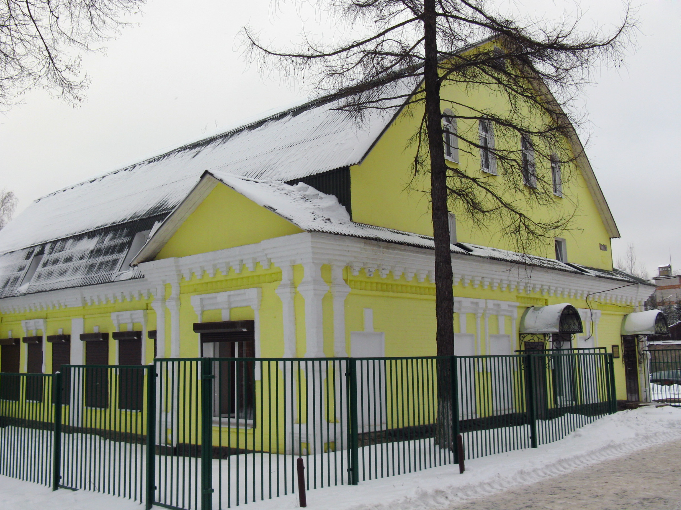 Museum of gramophone records in Aprelevka (Moscow Oblast, Russia)